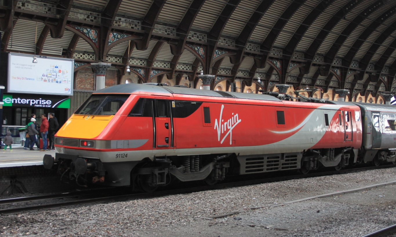 91124 was rebranded for Virgin Train East Coast's takeover of the East Coast franchise on 1 March 2015. A month later it had been split from its red and white train set and was instead partnered with a rake of Mark 4 coaches in its predecessor's livery. It is propelling the train out of York on its way to London Kings Cross.